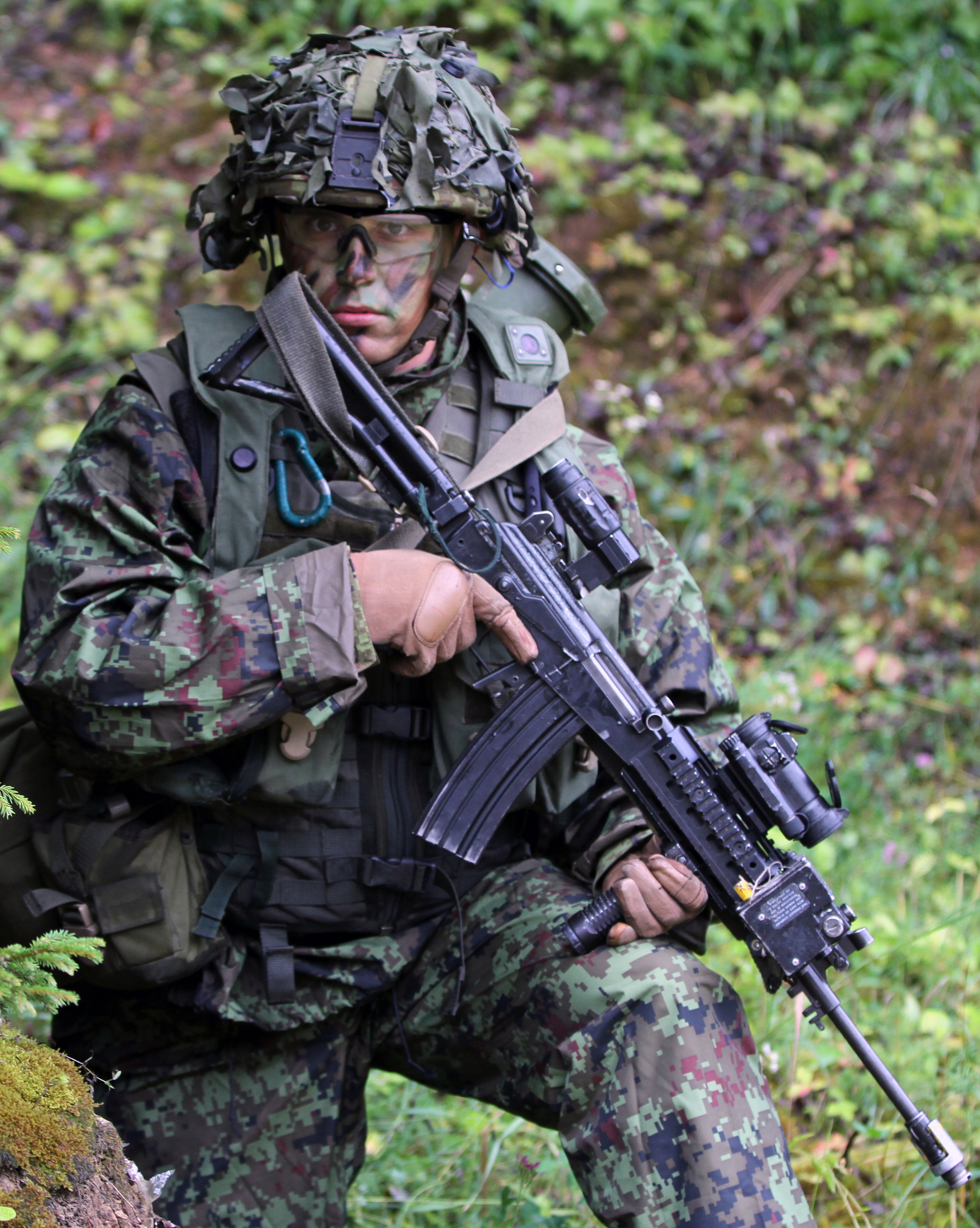 Estonian Land Force Cpl. Albert Benedik provides security during a simulated training exercise lane at the Hohenfels Training Area in Hohenfels, Germany, Aug. 27, 2014, during Saber Junction 2014. Saber Junction is a U.S. Army Europe-led exercise designed to prepare U.S., NATO and international partner forces for unified land operations.